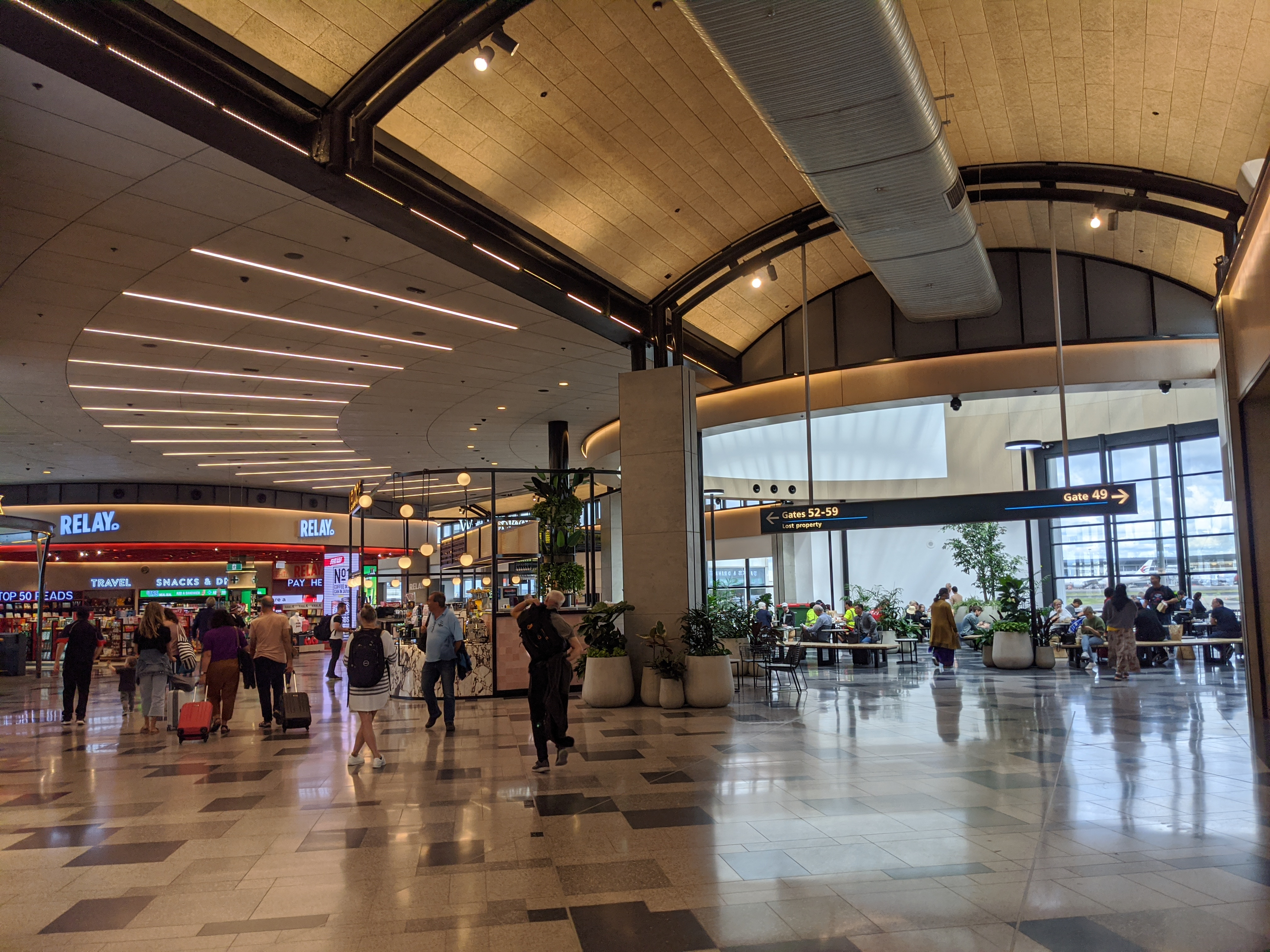 Sydney Airport Terminal 2